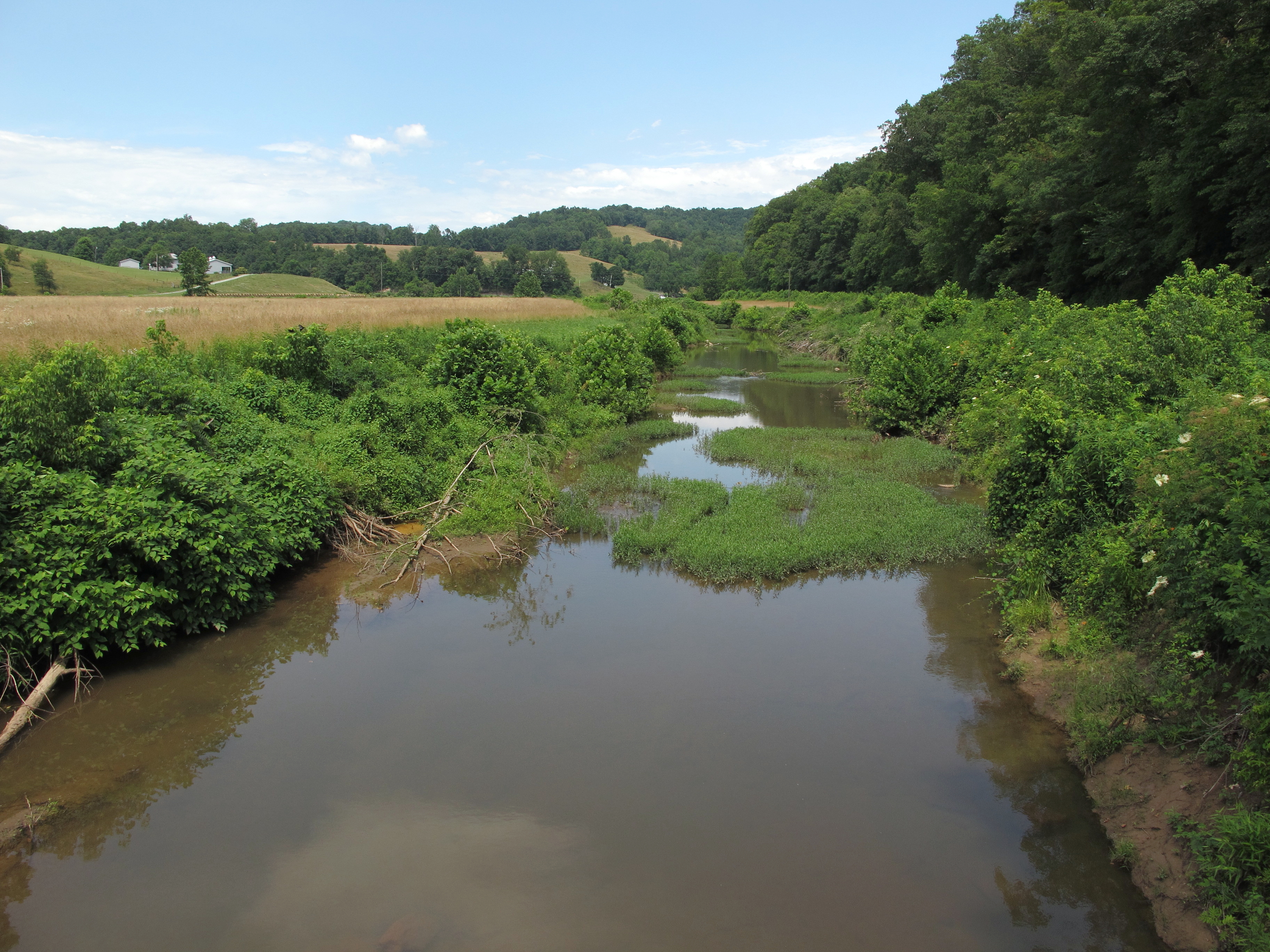 Point Pleasant Creek as viewed upstream from County Road 11 in Kidwell in Tyler County, West Virginia